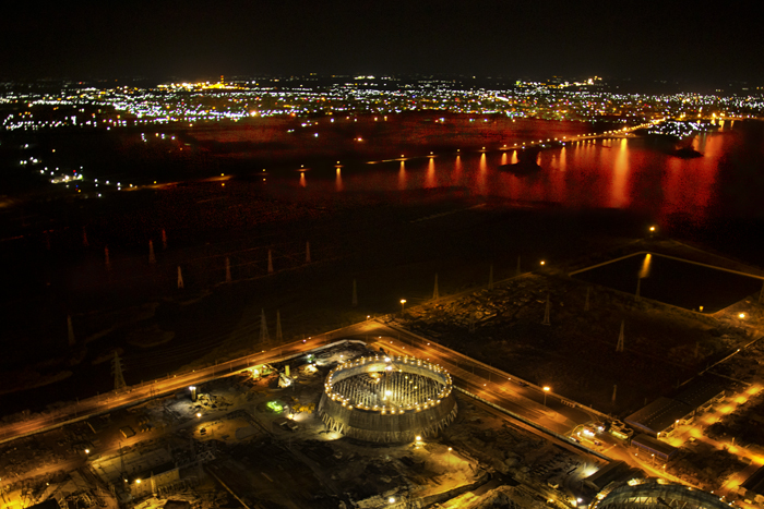 Night scapes of Tuticorin. Picture taken from the top of Chimney.